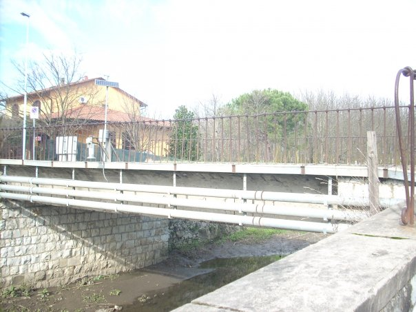 Il Fosso di Iolo - Iolo - via xx settembre